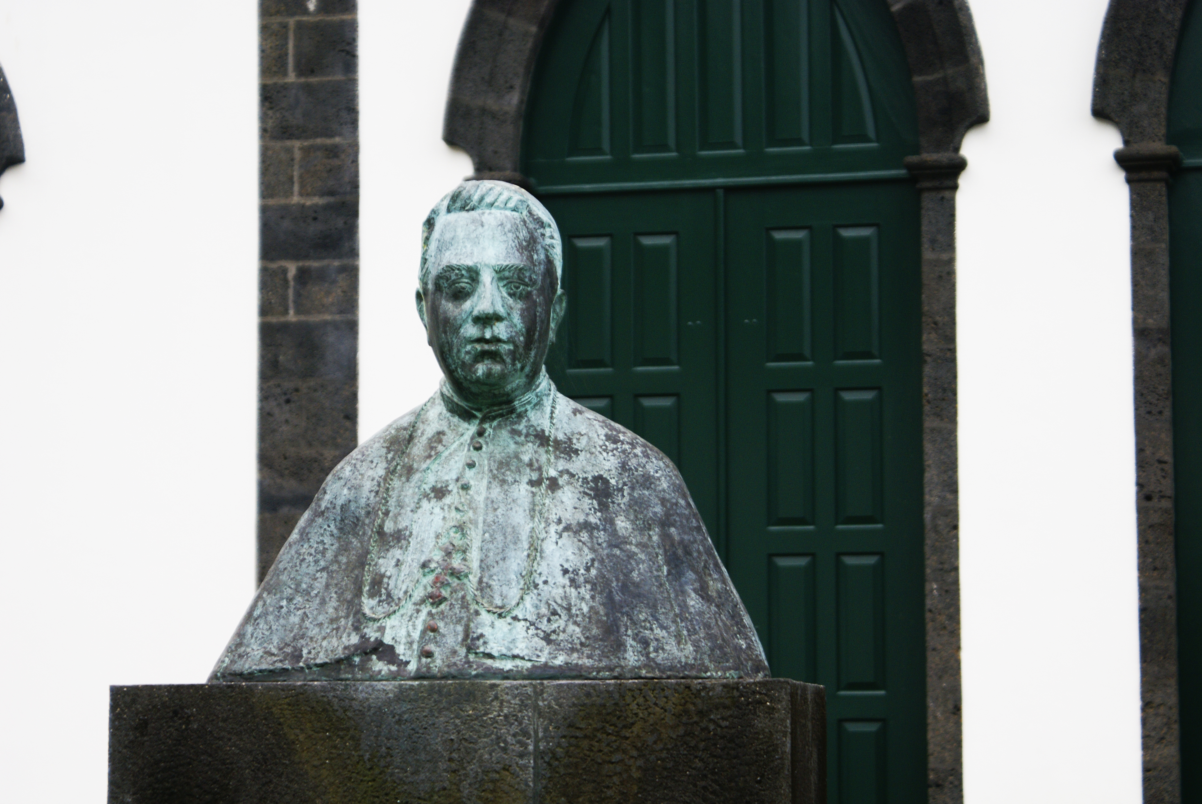 D. João Paulino de Azevedo e Castro, 19.º bispo de Macau, busto frente à Igreja da Santíssima Trindade, concelho das Lajes do Pico, ilha do Pico, Açores, Portugal